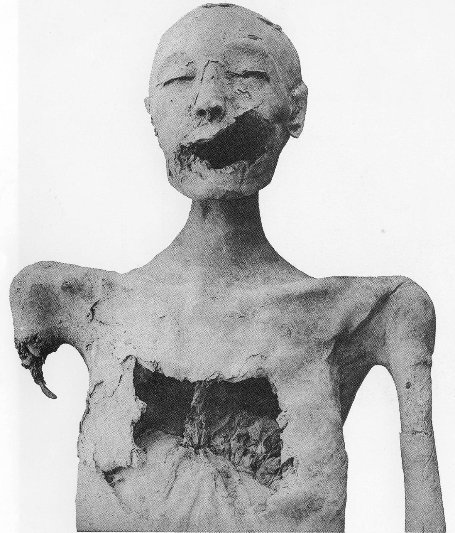 Front view of the "Younger Lady Mummy" found in tomb KV35. This image clearly displays the damage thought to be done by ancient tomb robbers (right arm torn from body, chest caved in) and what is now thought to have been a lethal injury to the left cheek/jaw. Image derived from Grafton Elliot Smith's "The Royal Mummies" (Plate XCIX), which was first published in 1912. The author died in 1937 so the book/image is in the public domain. Recent genetic tests have conclusively demonstrated that this individual was the mother of Tutankhaum. The JAMA eSupplement from Feb. 17, 2010 concludes that "The statistical analysis revealed that the mummy KV55 is most probably the father of Tutankhamun (probability of 99.99999981%), and KV35 Younger Lady could be identified as his mother (99.99999997%)." (eSupplement, p.3).